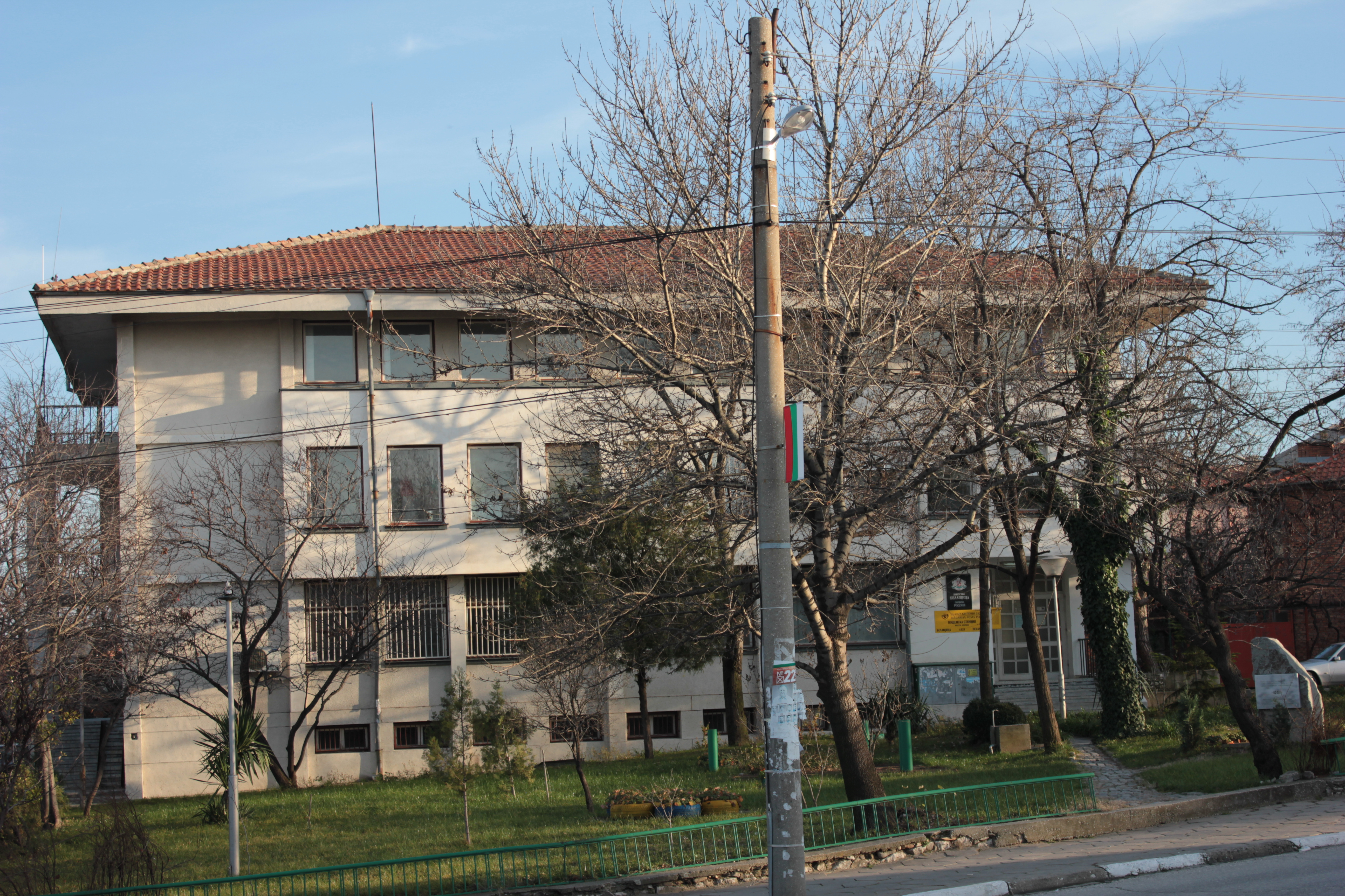 Belashtitsa Municipality office